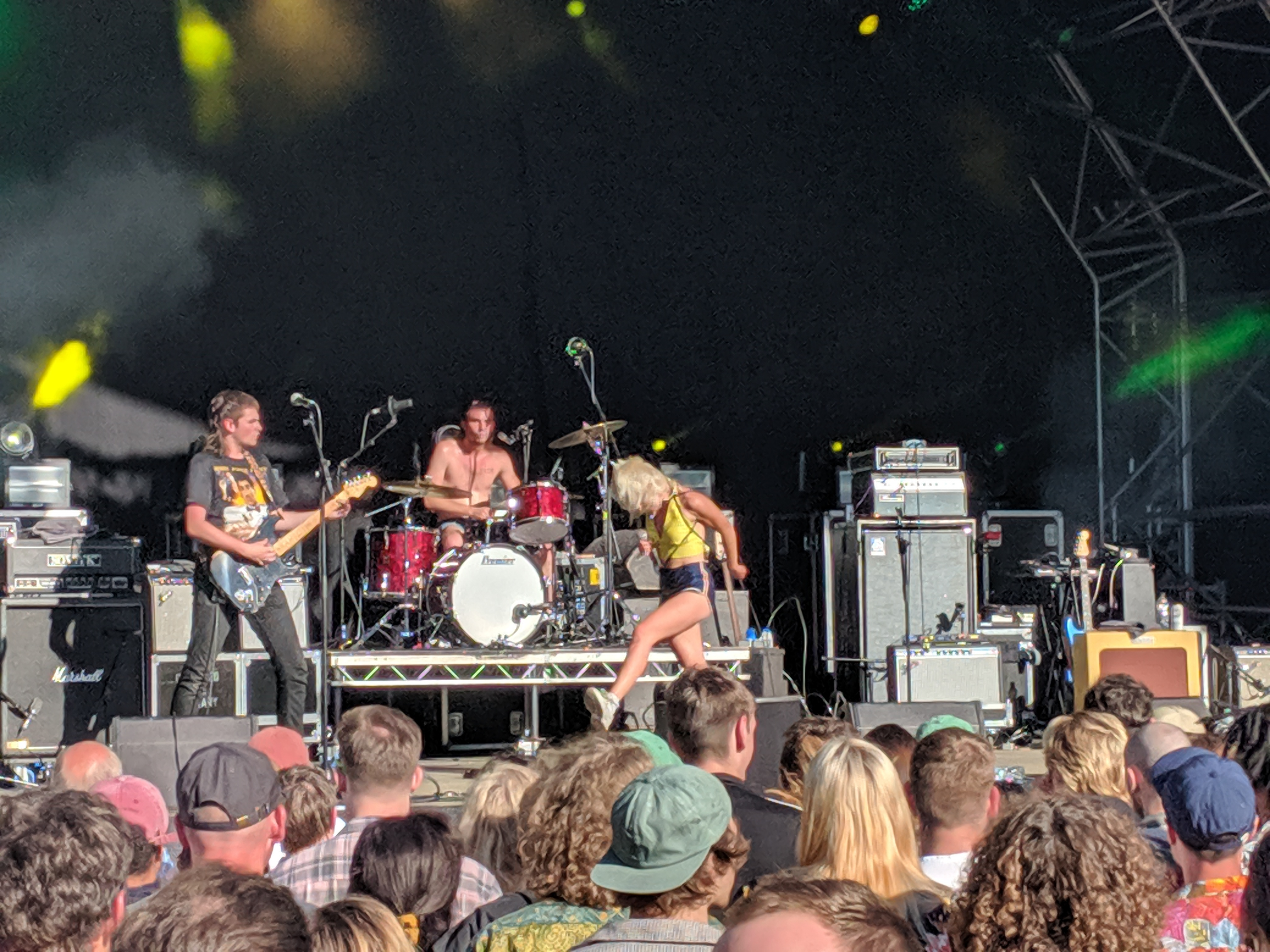 Amyl and the Sniffers performing at The Piece Hall in Halifax, 27th June 2019